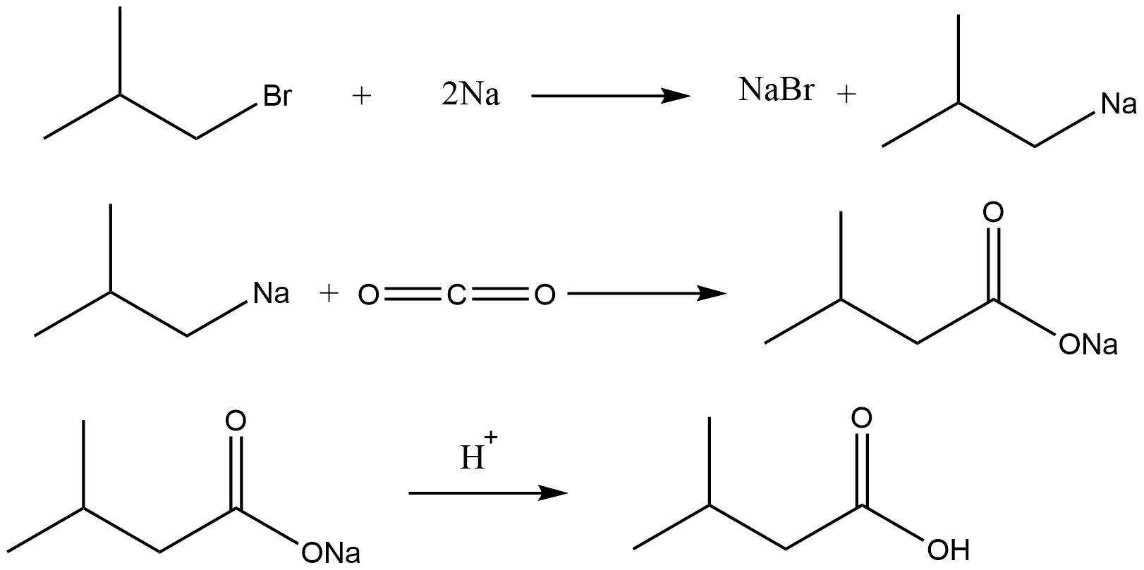 Reaction Scheme for the Formation of 3-methylbutanoic acid